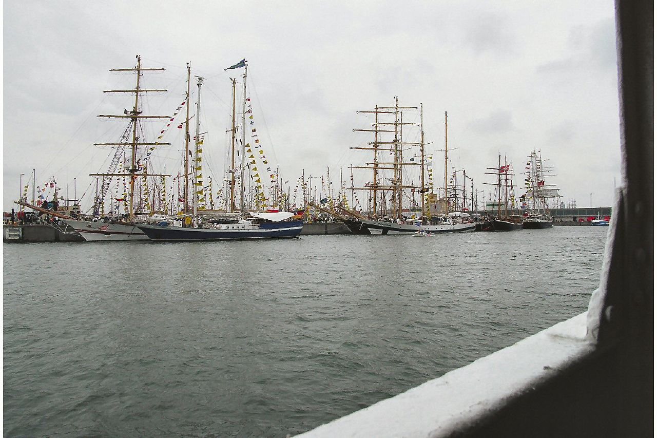 Arrival in Esbjerg from deck of Sørlandet (uploaded from Flickr)